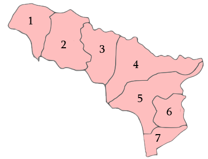 ab numbered maps